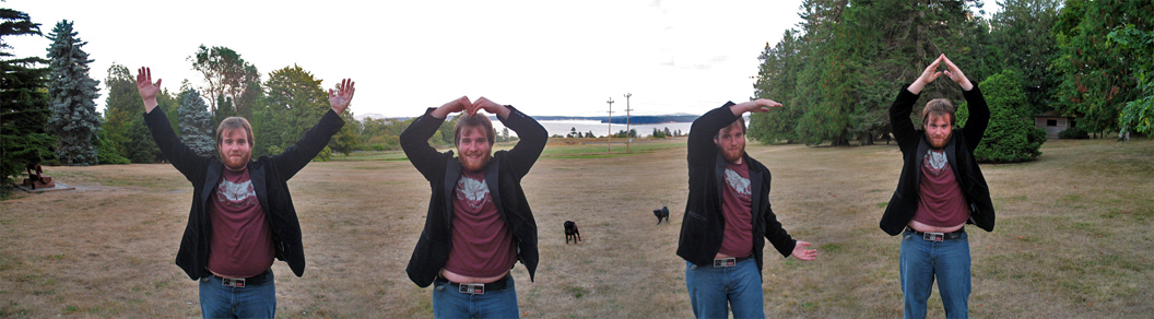 Demonstration of popular dance to Village People song "Y.M.C.A"